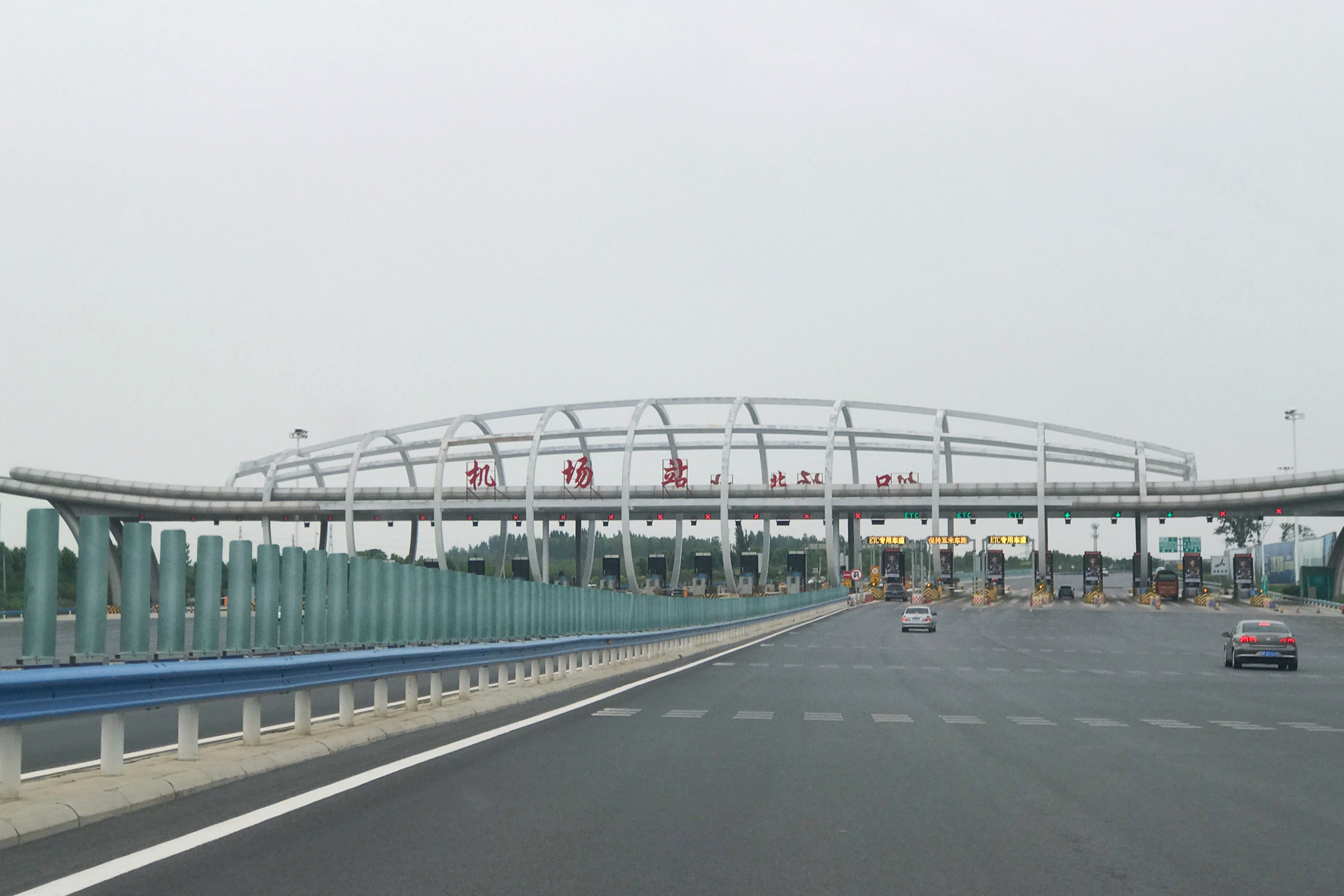 Airport Tollgate of Zhengzhou Airport Expressway